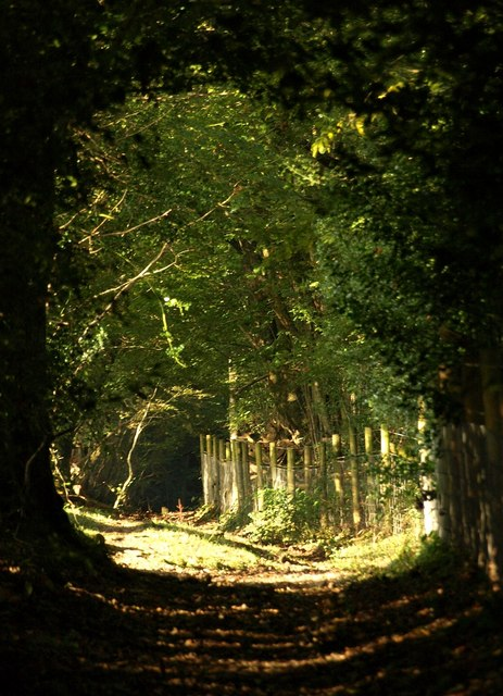 Dartmoor Way below Rora Down (3). See 1013120 - this is taken a little further north, looking along the tunnel of trees to a brighter section of the path.